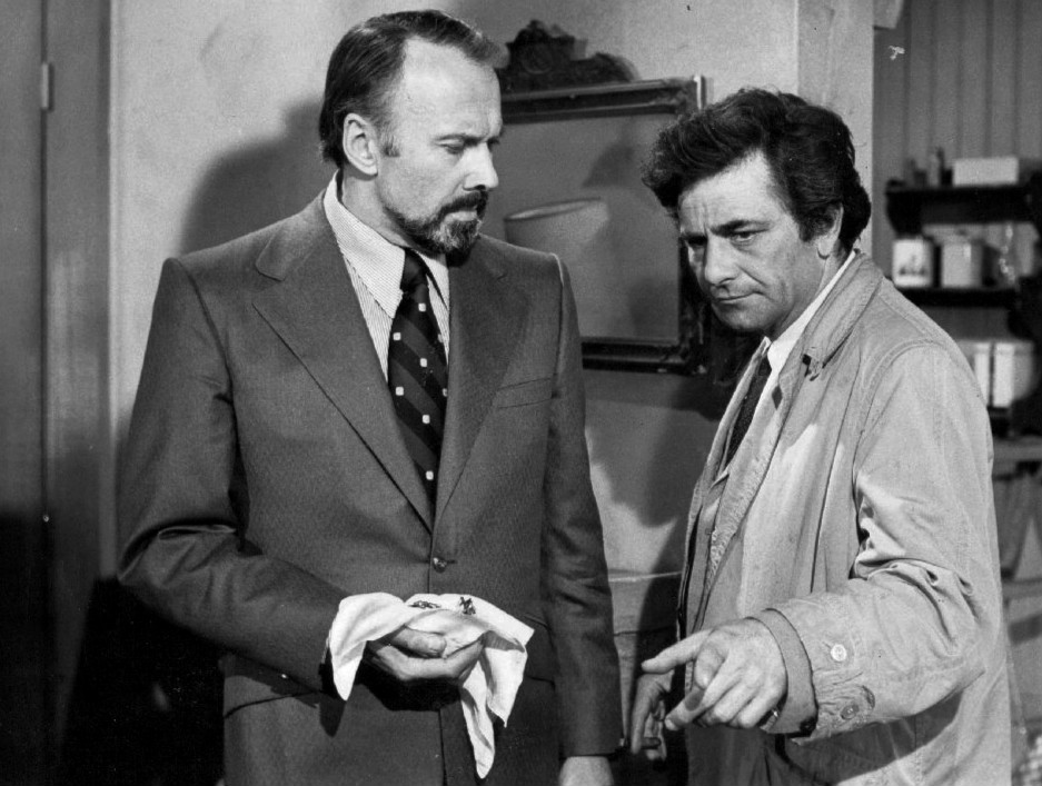 Publicity photo of Peter Falk and Richard Kiley in the television program Columbo.